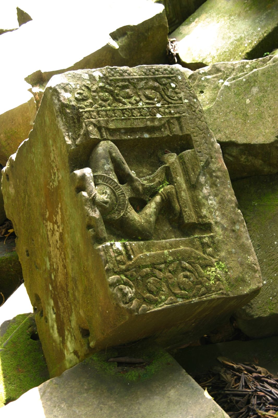 Piece of a stone carving of Cambodian Apsara dancer from Beng Mealea temple.